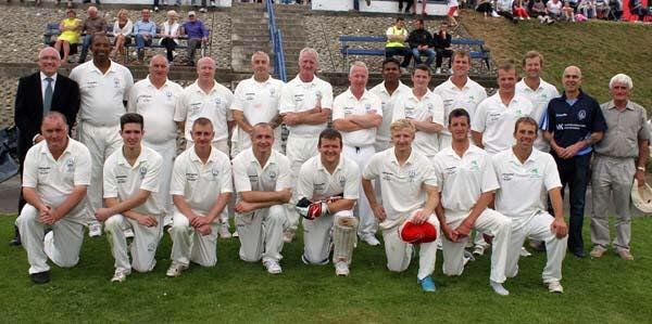 All participants of the charity match.